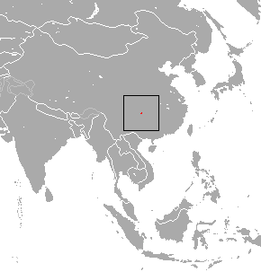 Gray Snub-nosed Monkey (Rhinopithecus brelichi) range